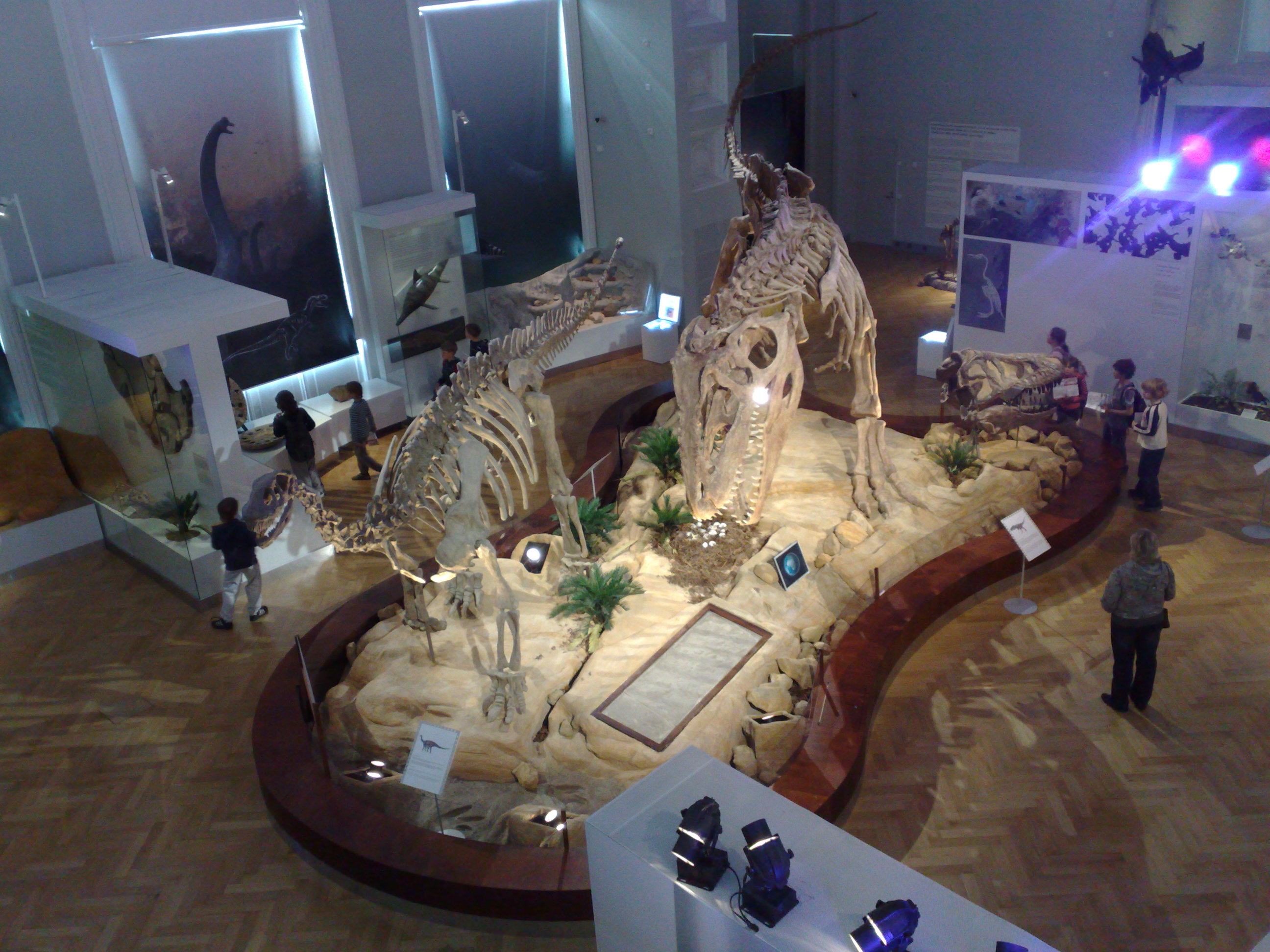 Museum_of_Natural_History003